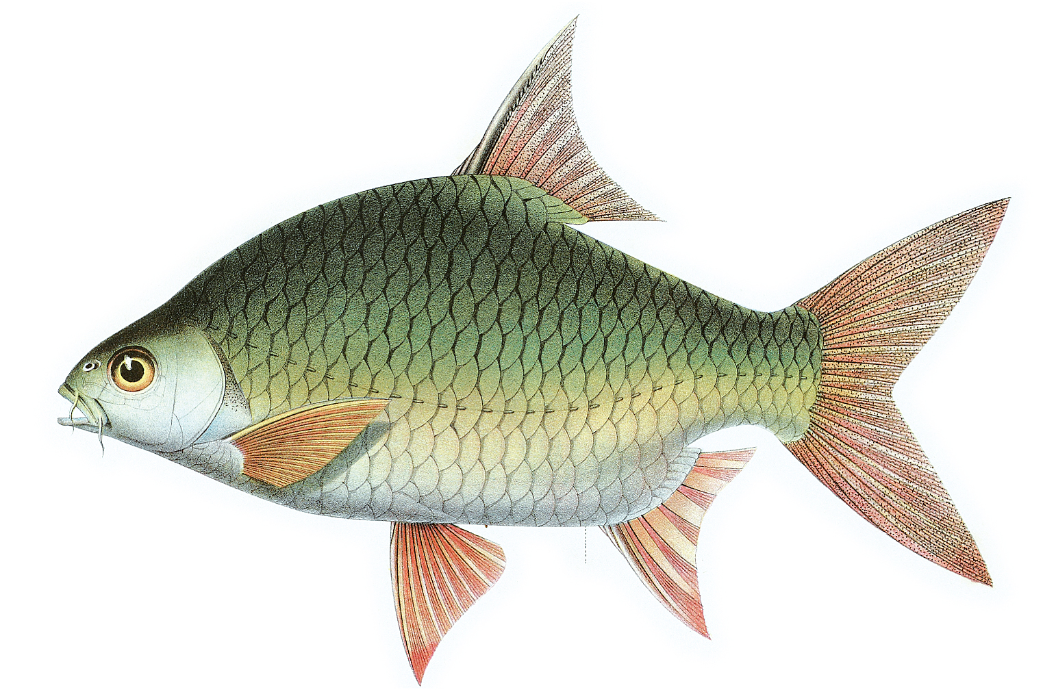 Puntius bramoides